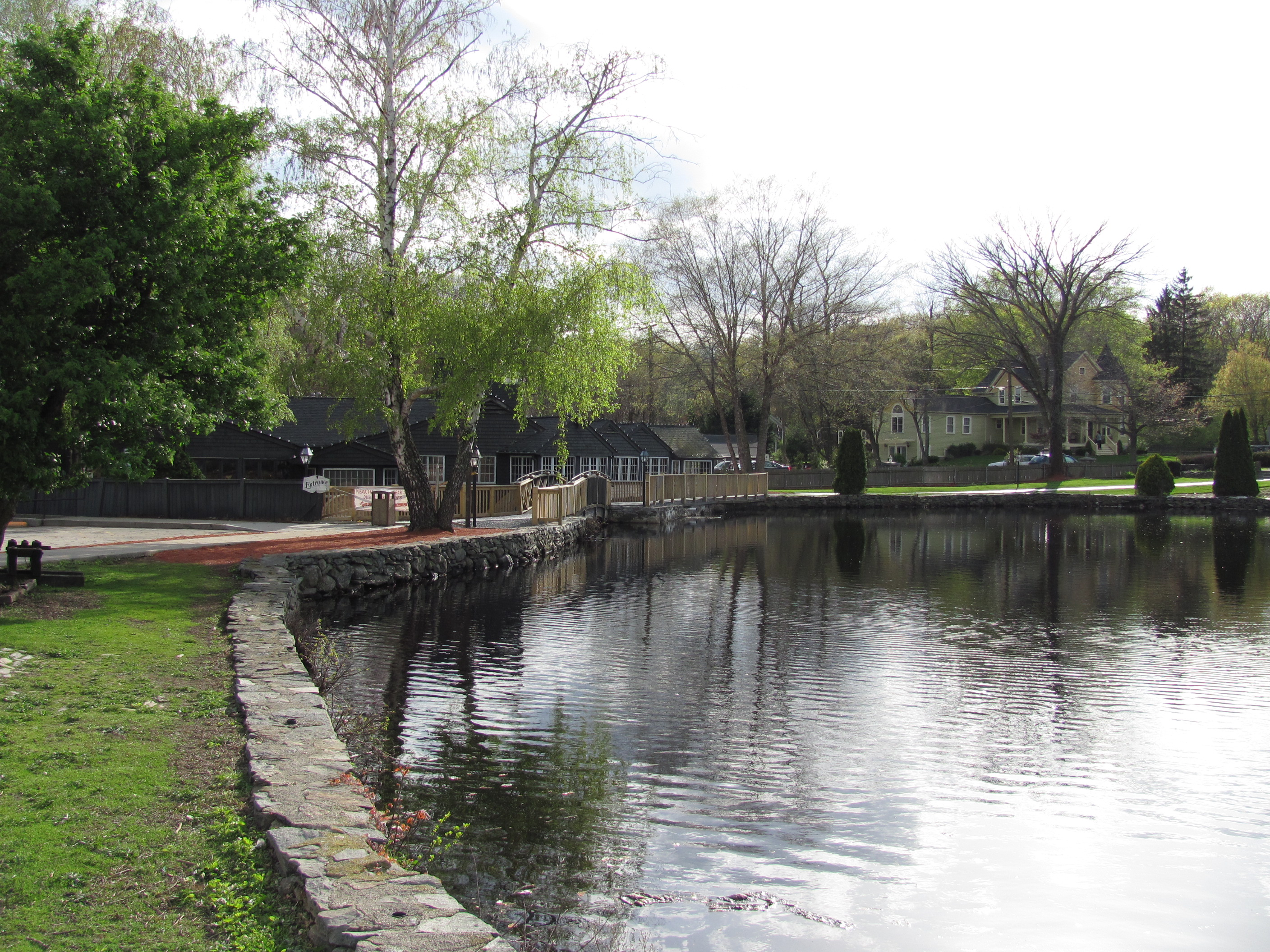 Old Grist Mill Pond, Seekonk Massachusetts